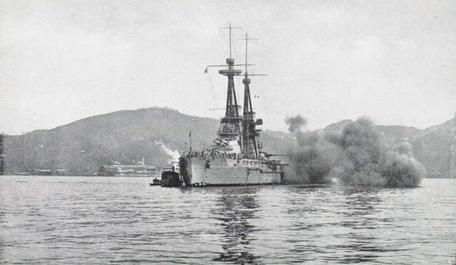 Italian battleship Andrea Doria gunnery training.